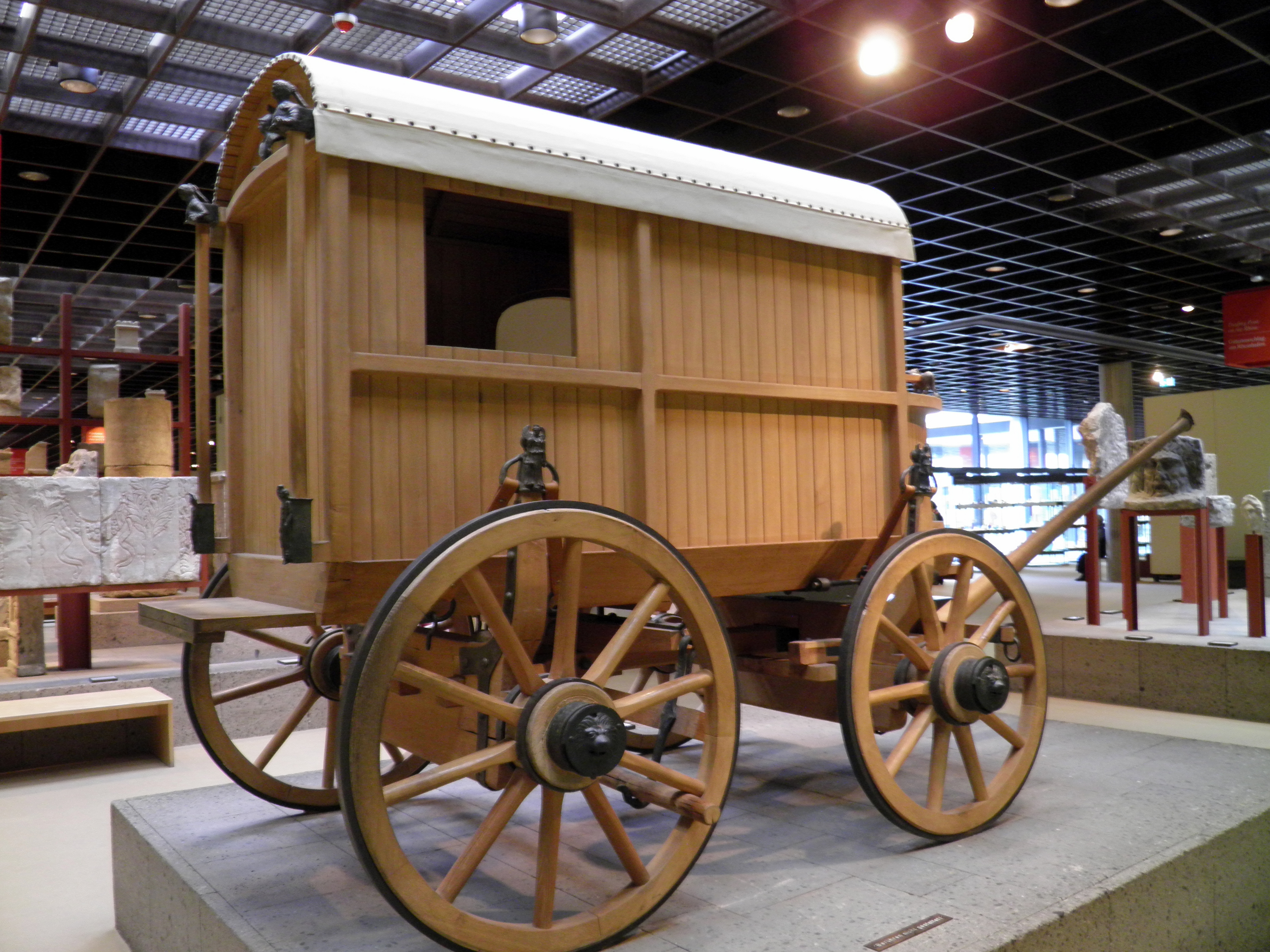 Reconstruction of a Roman traveling carriage richly decorated with bronze fittings, Romisch-Germanisches Museum, Cologne